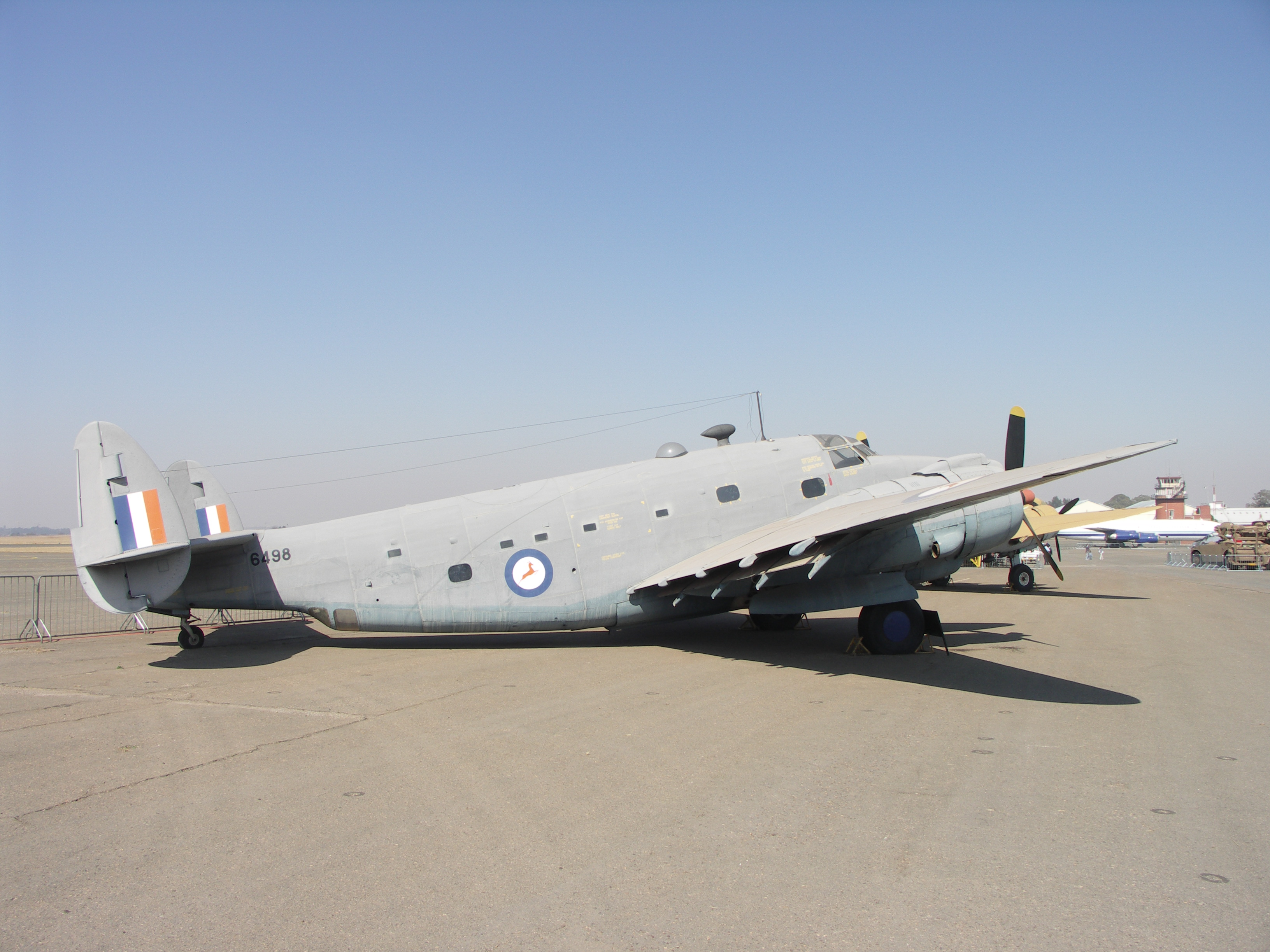 Lockheed PV-1 Ventura at the South African Air Force Museum at Swartkop, Pretoria